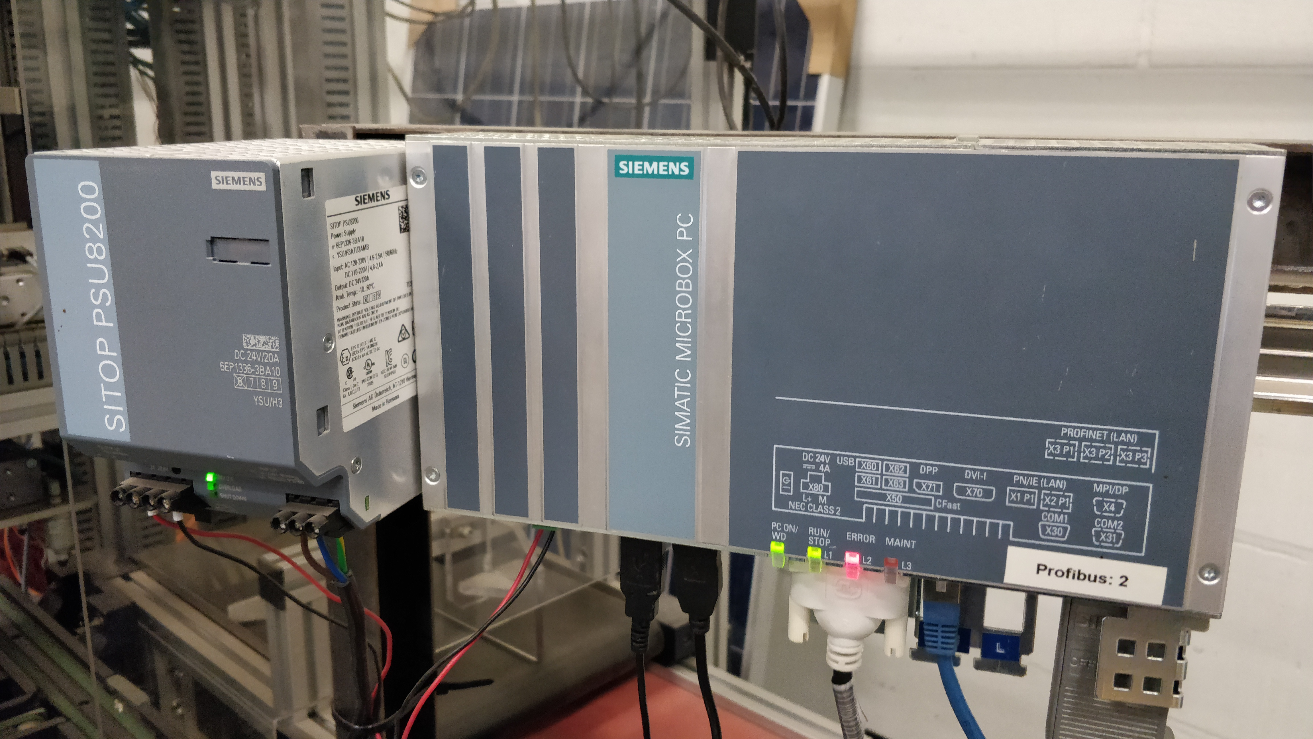 Siemens Simatic Microbox PC